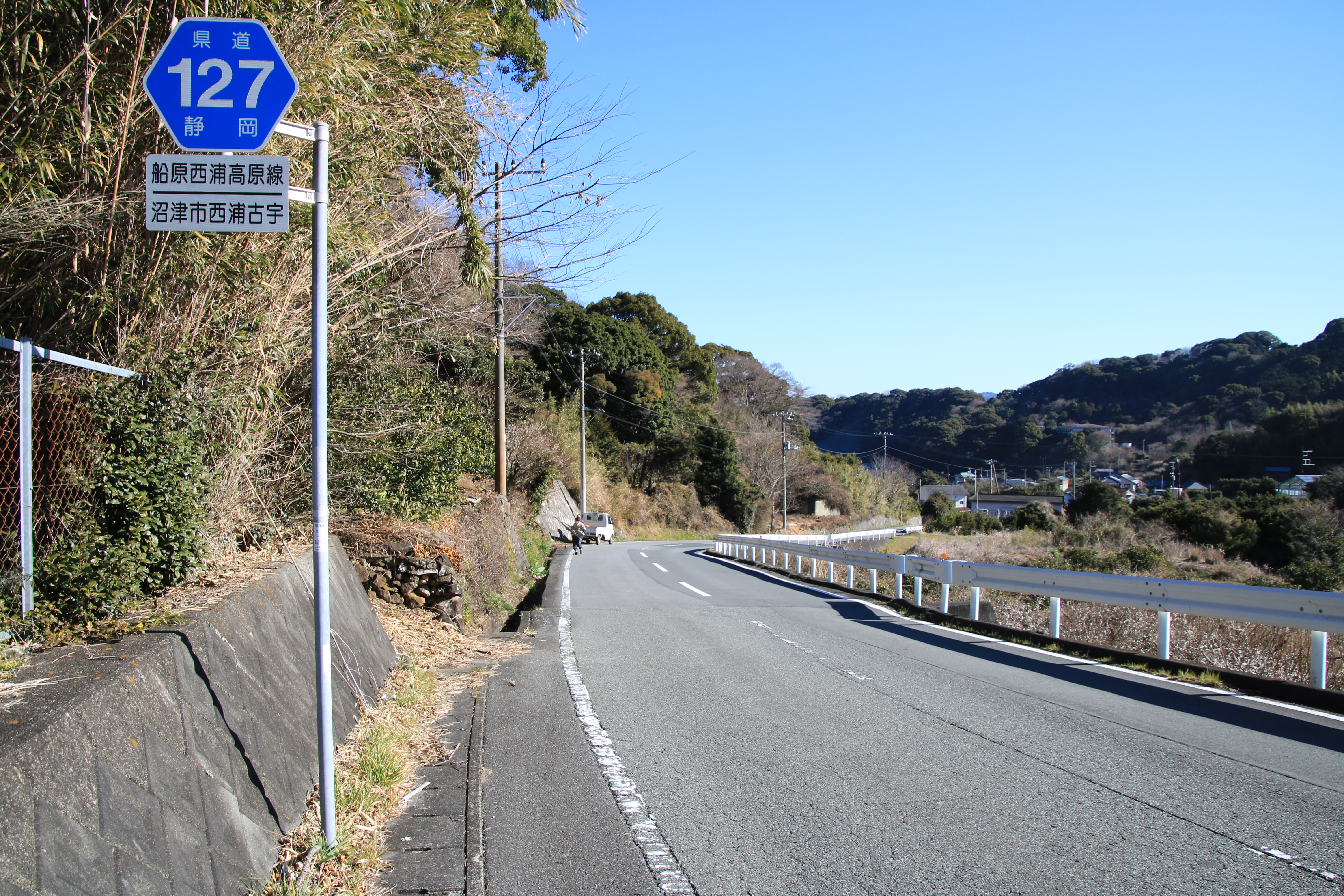 Shizuoka Prefectural Road Route 127 in Nishiurakou, Numazu, Shizuoka Prefecture, Japan.